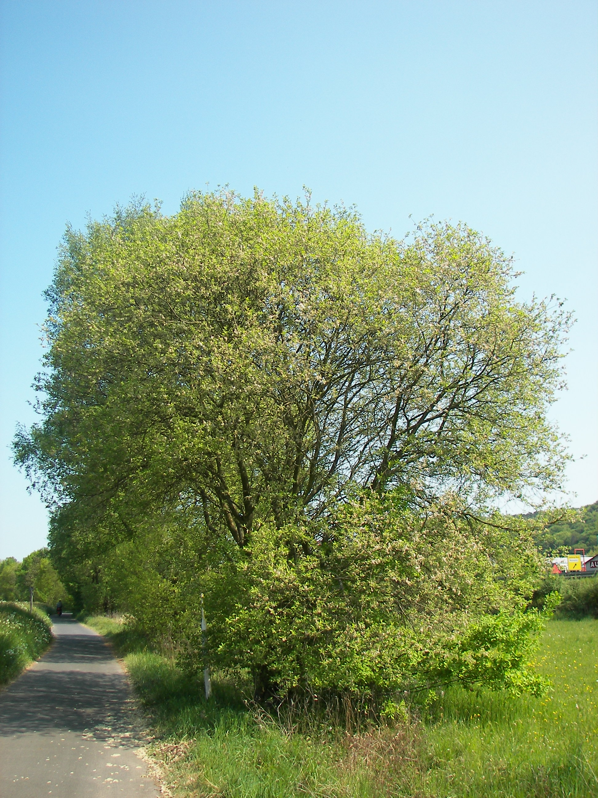 Goat Willow (Salix caprea), Location: Marburg, Hesse, Germany